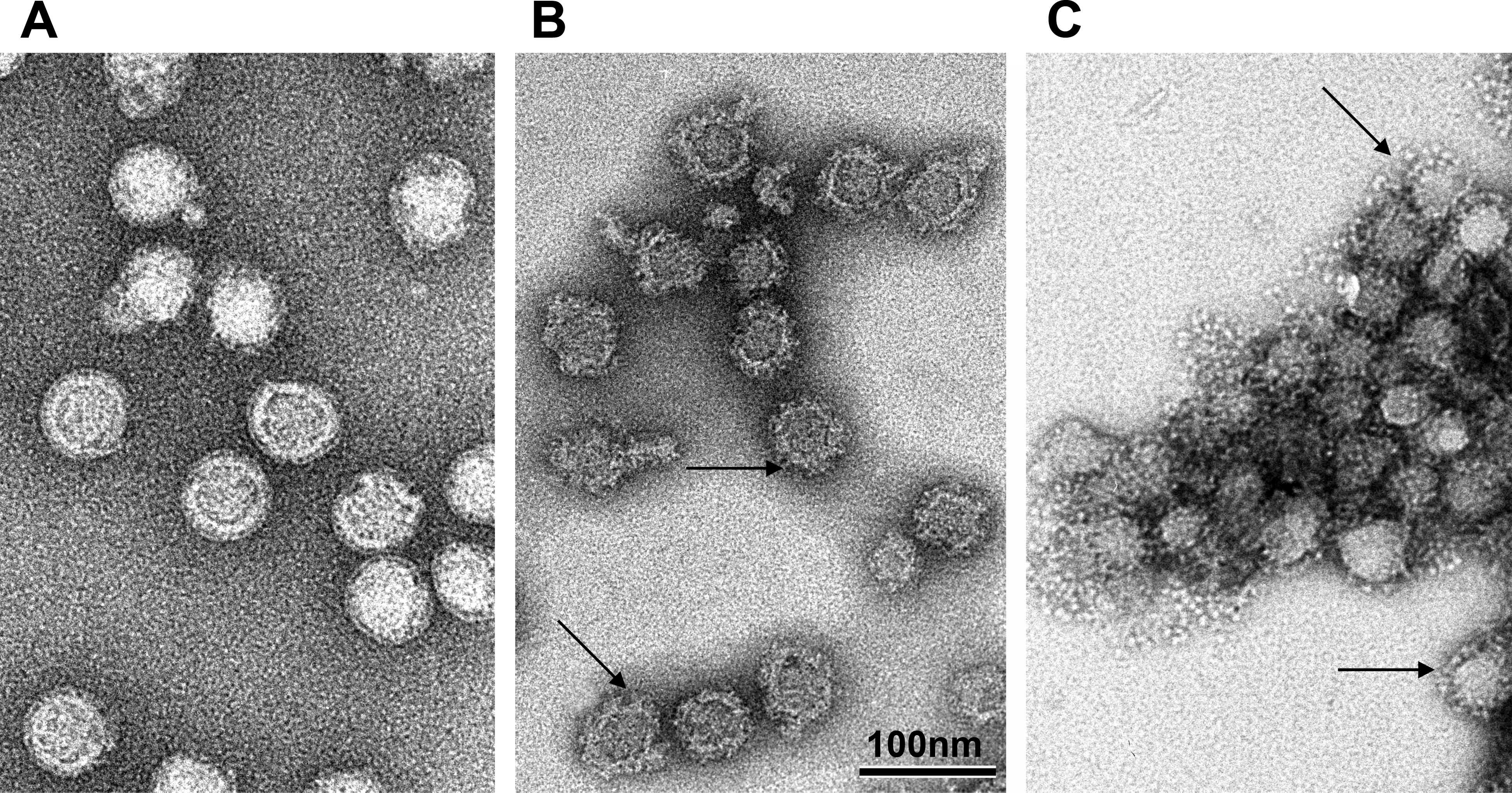 Electron Micrographs of Tick-Borne Encephalitis Virus at pH 8.0, 10.0, and 5.4 TBE virus was preincubated at pH 8.0 (A), 10.0 (B), and 5.4 (C), fixed with formalin, and negatively stained by phosphotungstic acid adjusted to pH 8.0 (samples A and B) or pH 6.0 (sample C). Arrows in (B) point to the rough surface generated by alkaline pH and in (C) to the bulky spikes generated by low pH treatment. All micrographs have been recorded at the same magnification. In (B) and (C), the virions lost their shell-like icosahedral envelope structure, at least at the particle surface, and as a consequence display irregular shapes that give the impression that the virus diameter is smaller than in (A). However, in all cases, the core diameter of the best-preserved virions has a similar value. In (C), the virions are aggregated, a characteristic of TBE virus maintained at low pH.